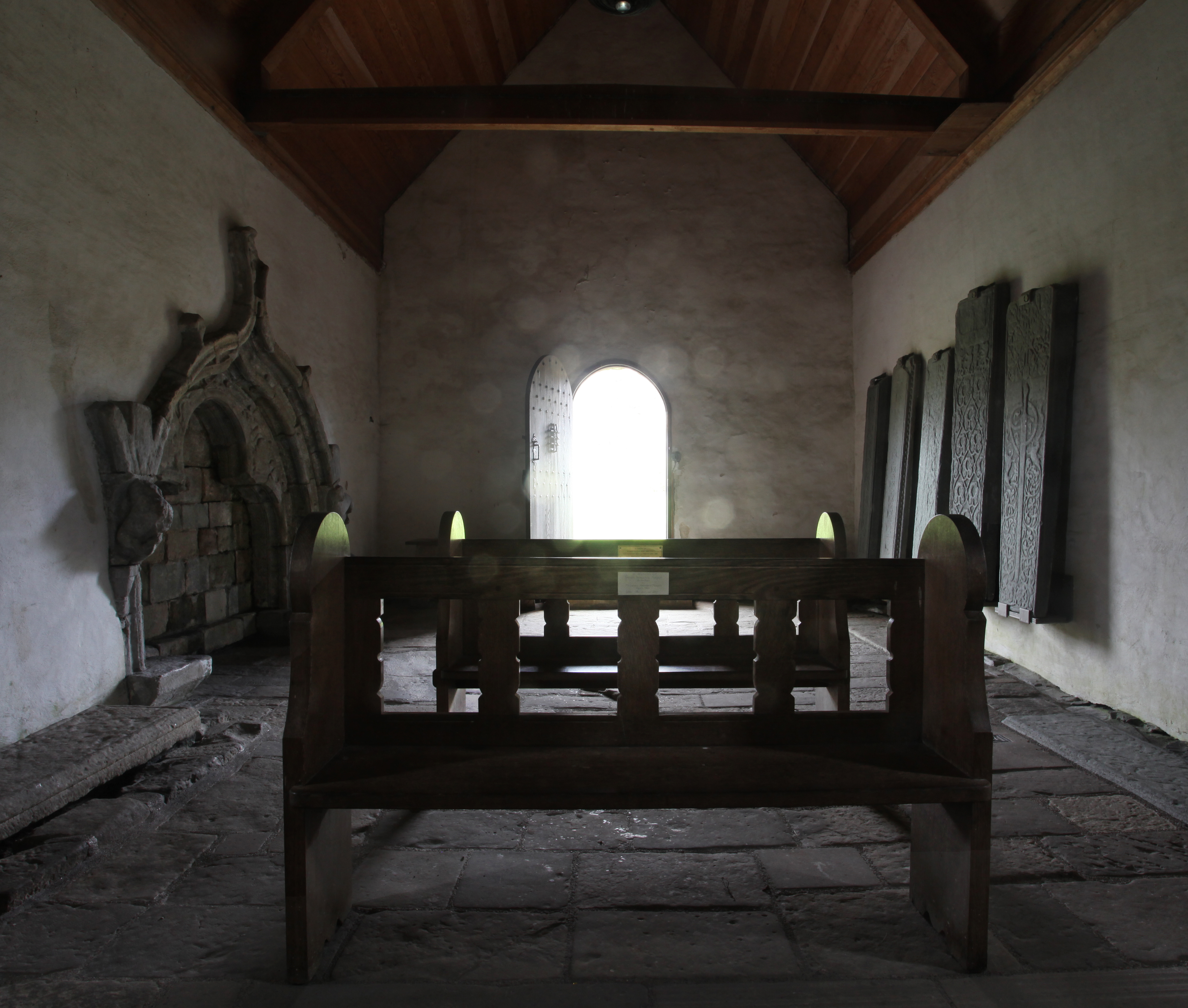 12th century chapel and burial place of the MacDonald family